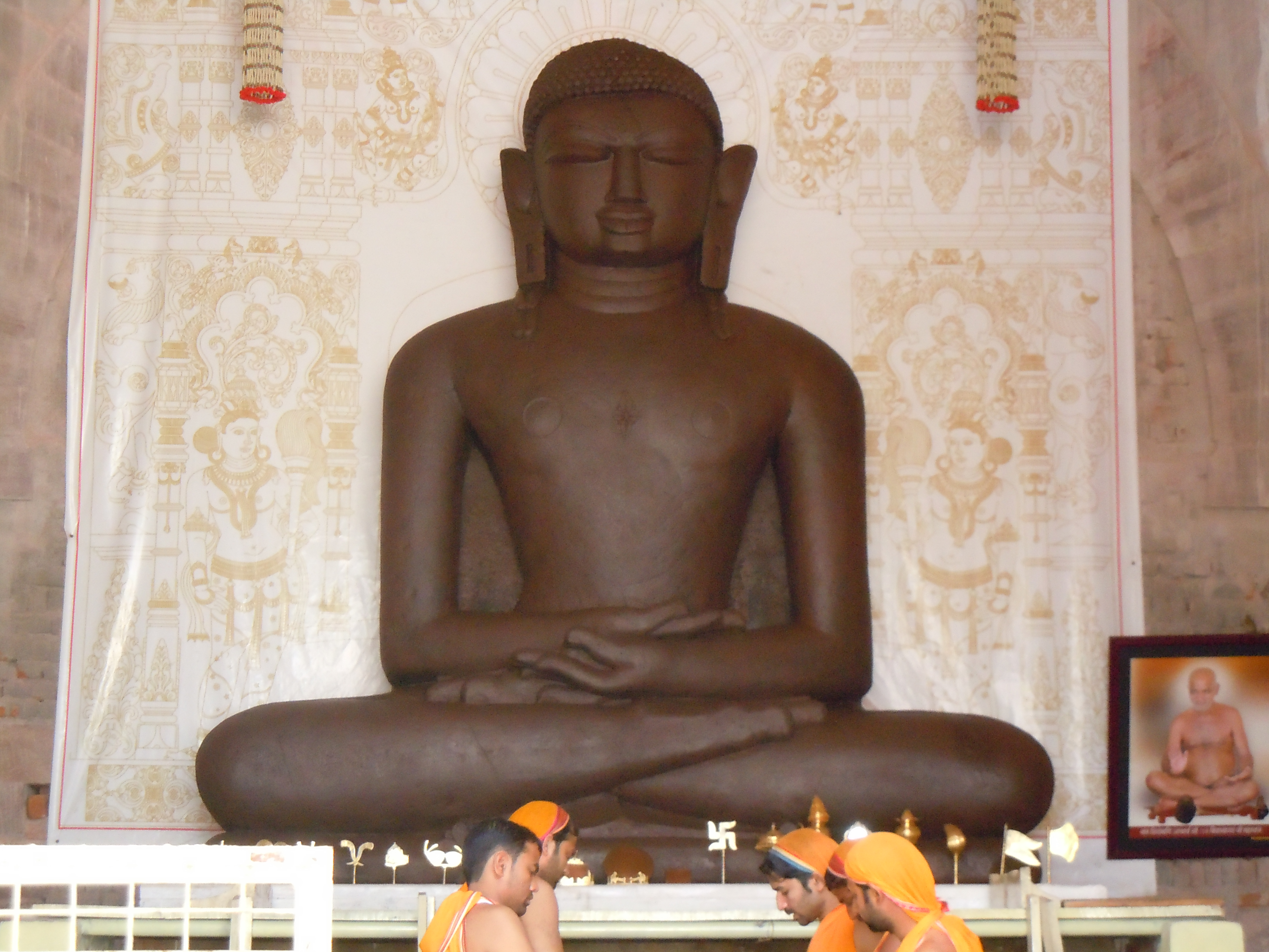 Kundalpur is a place full of natural attractive beauty. It is famous for the miraculous colossus of Bade Baba (Adinath) in sitting (Padmasana) posture. It is 15 feet in height. This is also the place of salvation of Antim Kevali Shridhar Kevali. There are 63 temples of various types, among them 22nd temple is famous for Bade Baba Bhagwan Adinath the principal deity and 49th is called Jal Mandir, an attractive temple situated in the middle of beautiful pond Vardhaman Sagar. Acharya Vidyasagarji has been the main source of inspiration for the construction, development and renovation of the main temple and various structures at Kundalpur. He is often referred as Chhote baba also by his disciples.